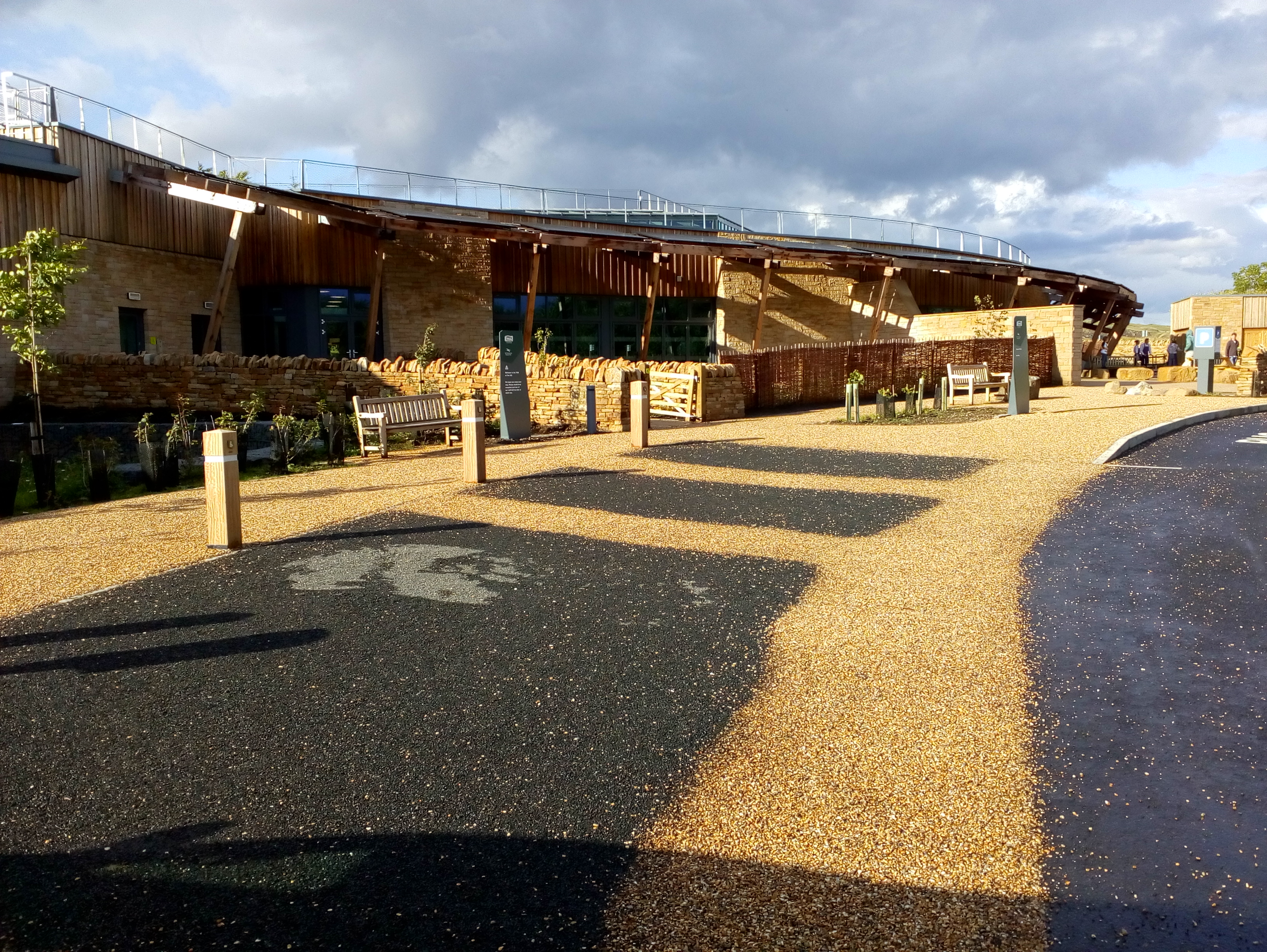 The Sill new Youth hostel on Hadrian's wall in August 2017